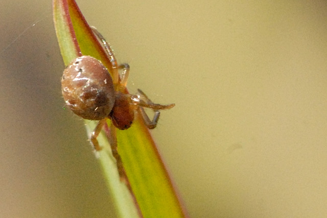 Theridion hemerobium from Commanster, Belgian High Ardennes .